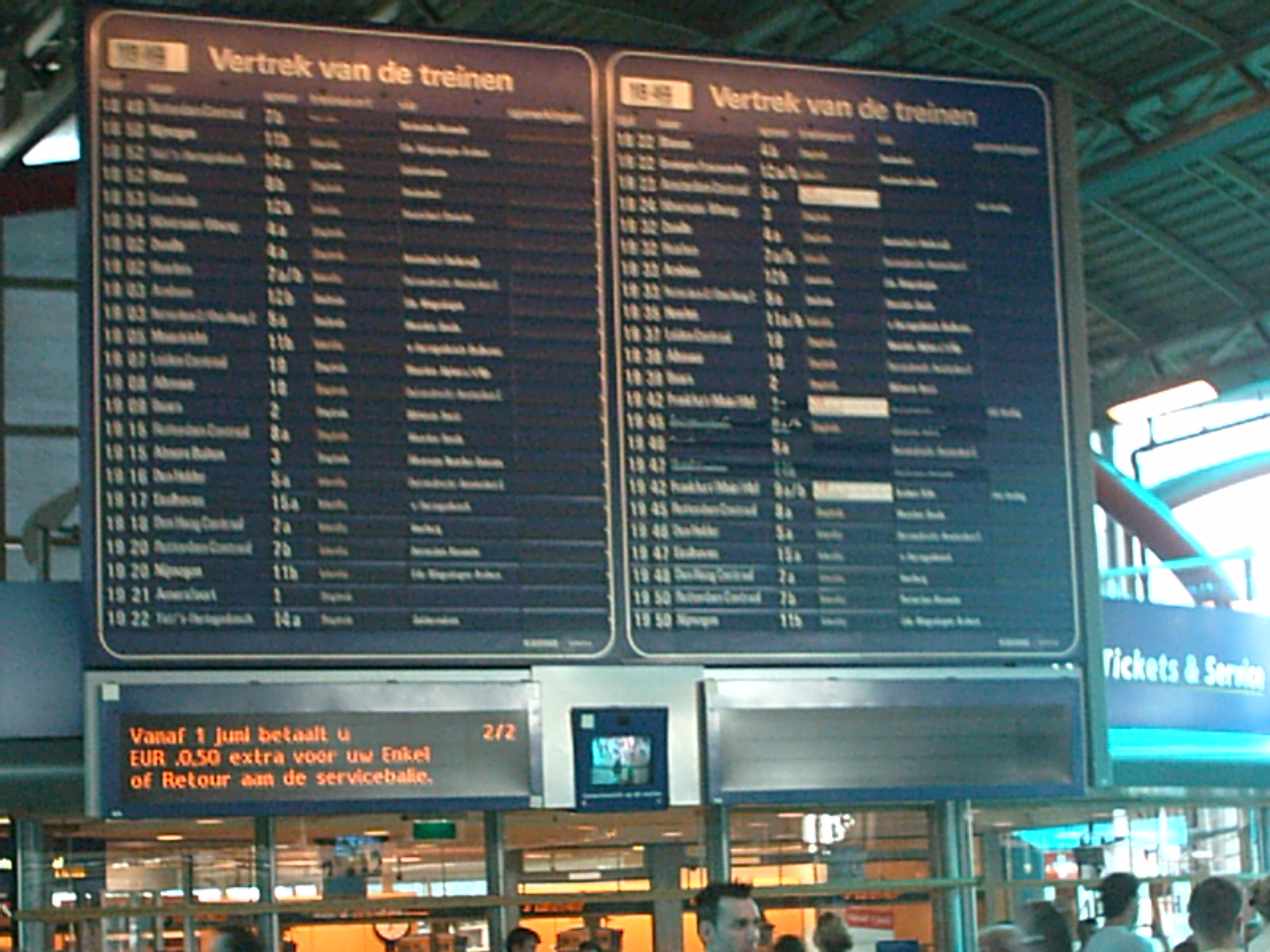 At the Utrecht train station, this board shows which trains are leaving in the next hour(s).